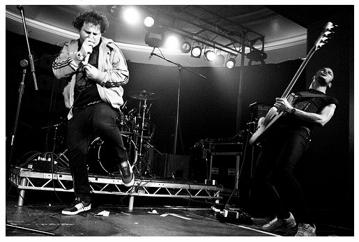 band live photo